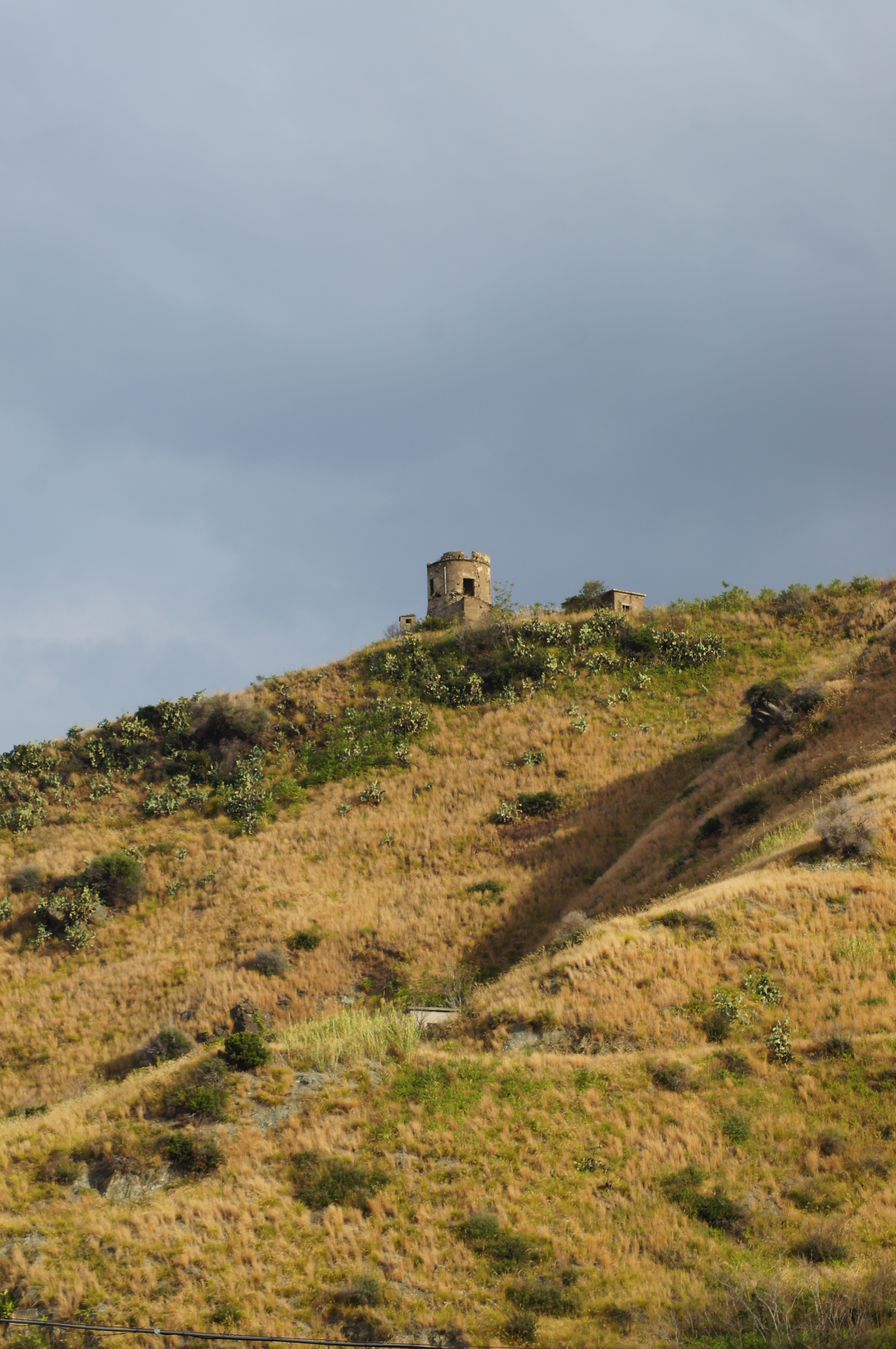 The Arab-Norman tower of Coreca, seen from the village square.